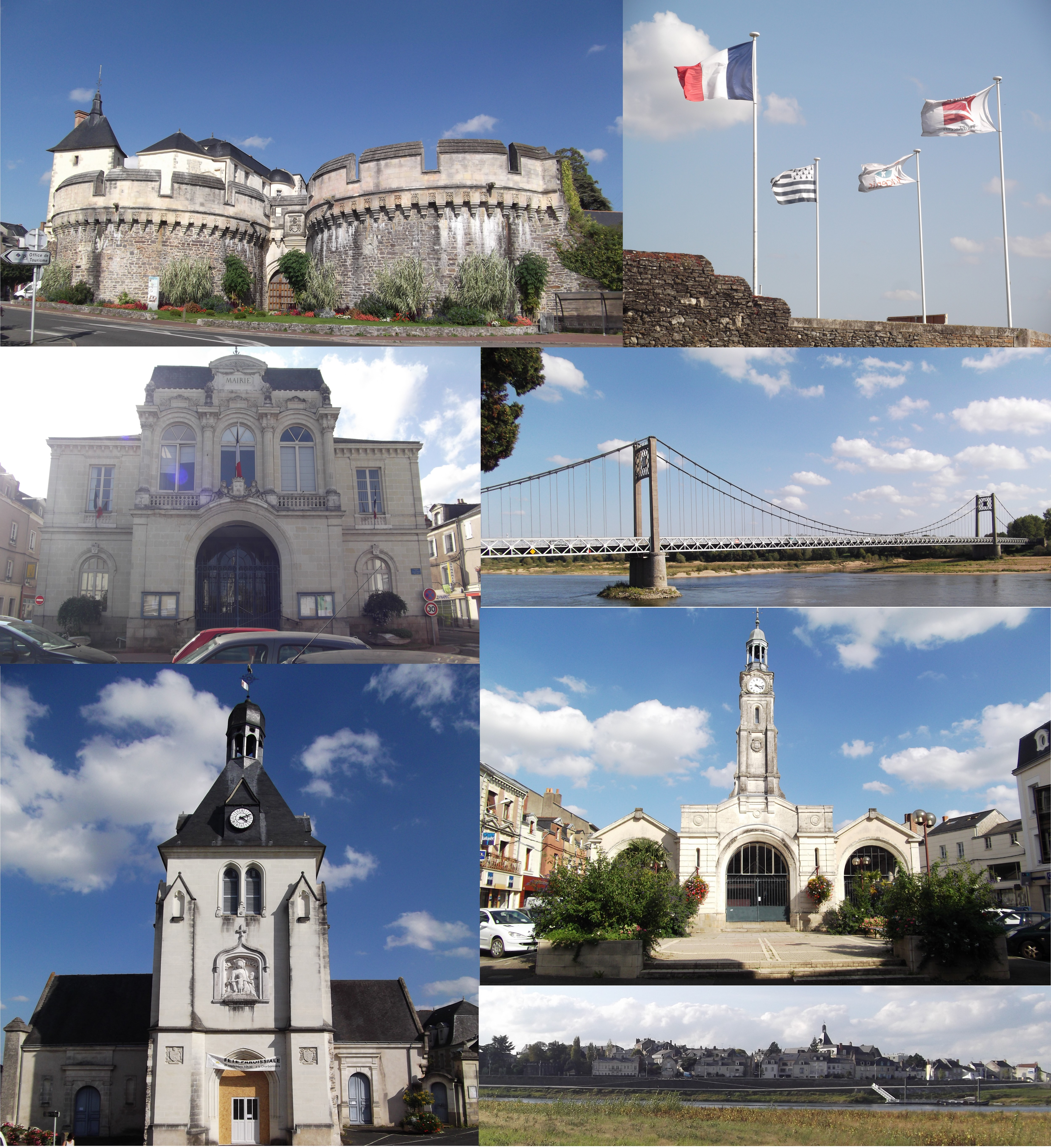 Vues d'Ancenis